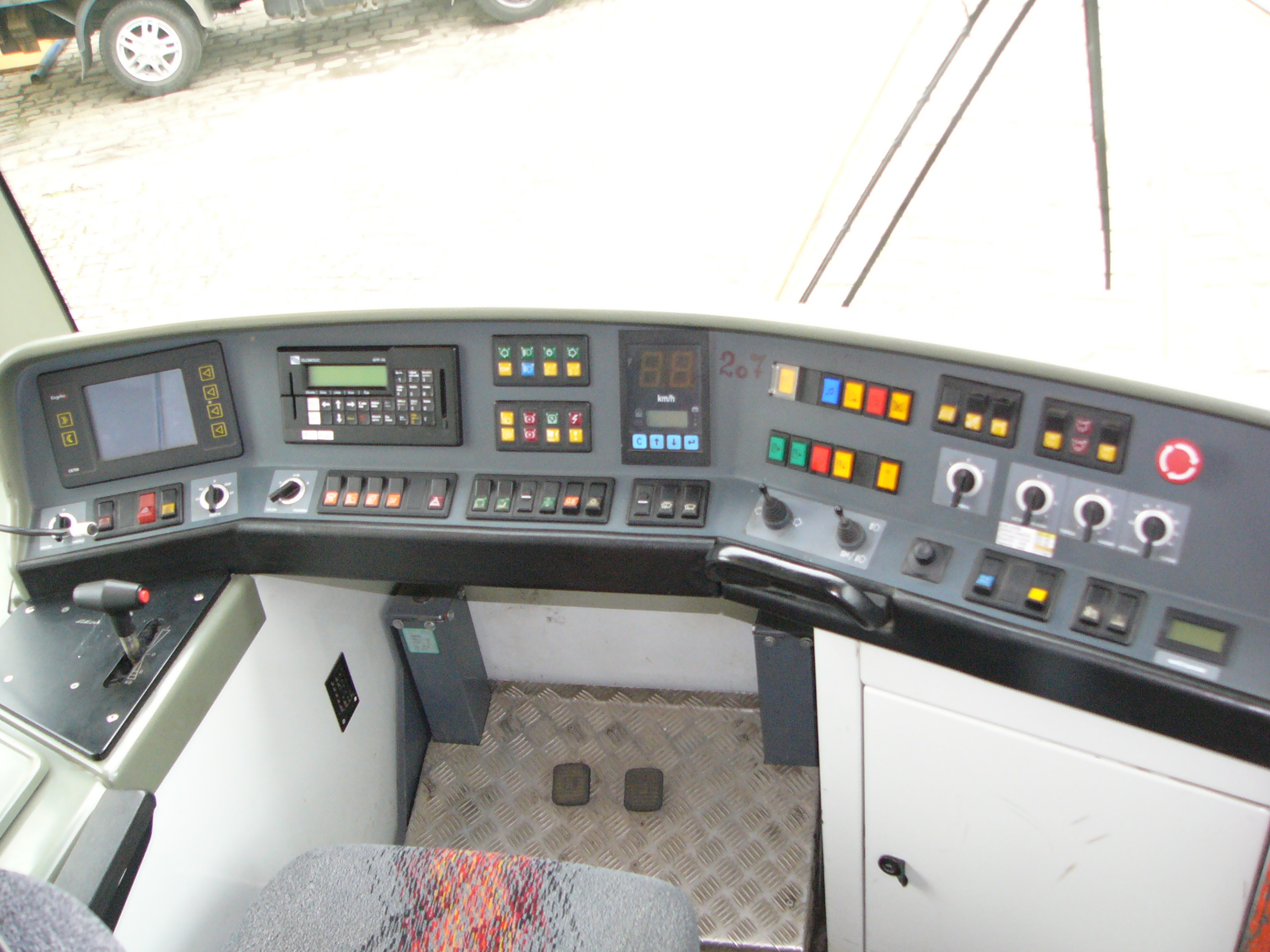 Cockpit of tram Inekon 01 Trio in Olomouc (the Czech Republic).